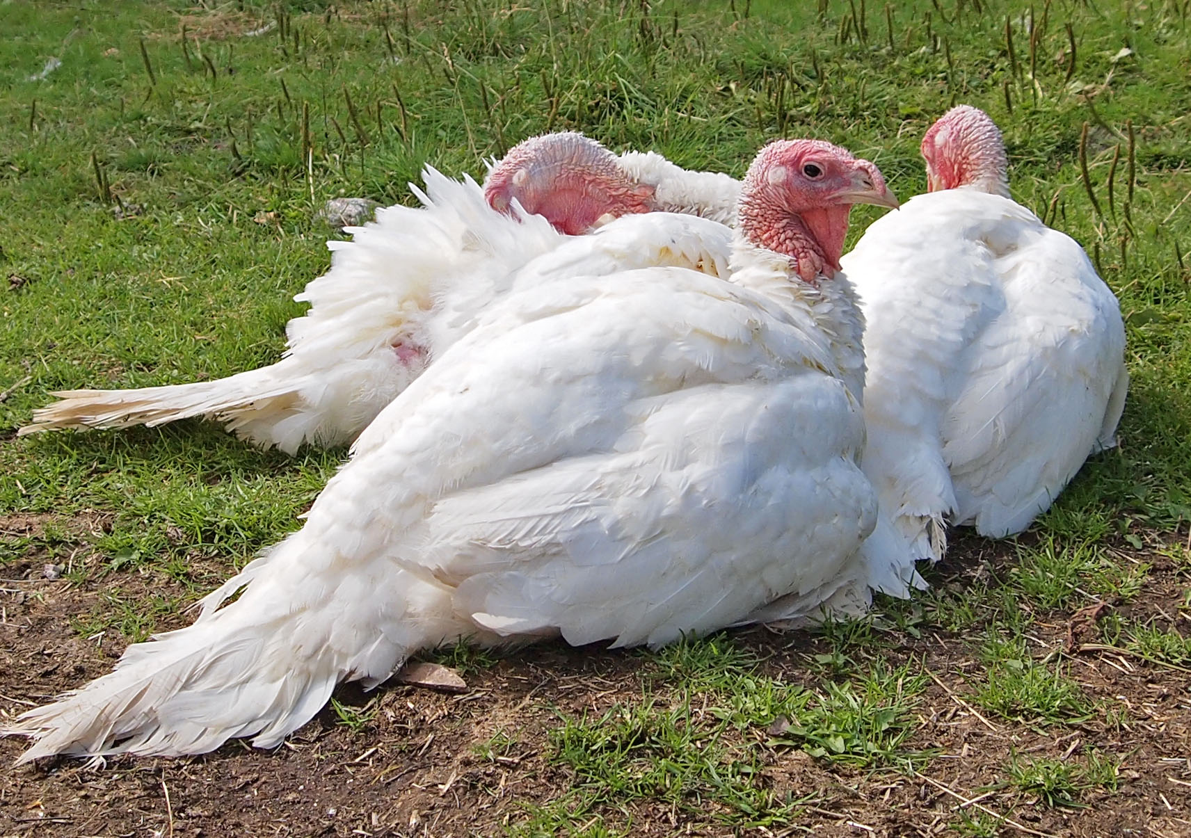 White turkeys in Ysitien Lemmikki Zoo, Jyväskylä.